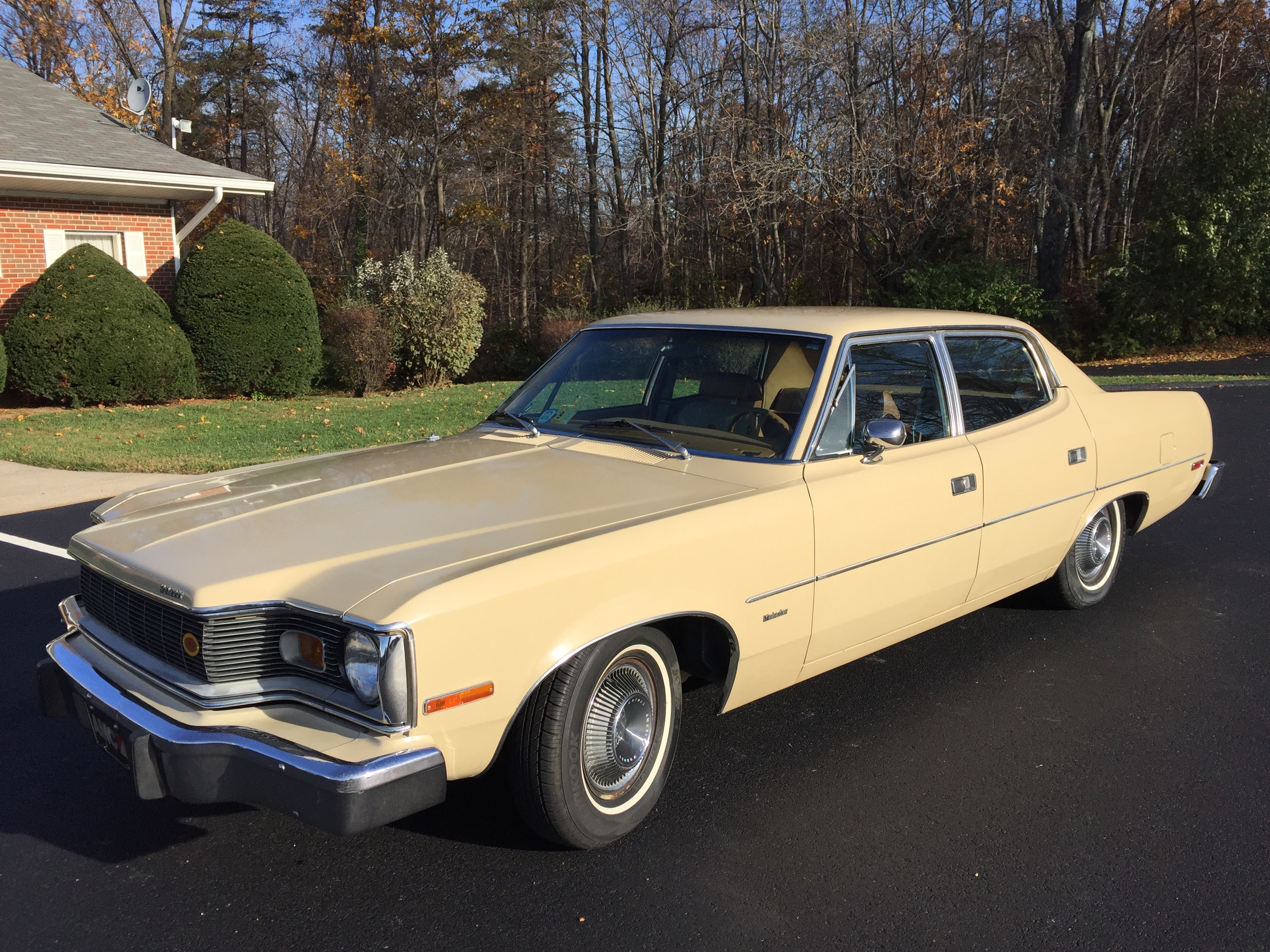 1975 AMC Matador base model four-door sedan, built in Kenosha, Wisconsin, by American Motors Corporation. This full-sized six adult passenger capacity car - riding on 118 in (2,997 mm) wheelbase with an overall length of 216 in (5,486 mm) - has its factory original Fawn Beige finish, standard woven (breathable) vinyl upholstery on its bench seat interior in beige, and also AMC's optional "Custom" wheel covers.